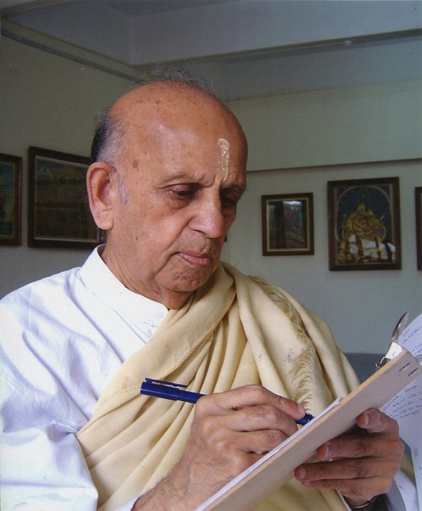 Photograph of late S. K. Ramachandra Rao